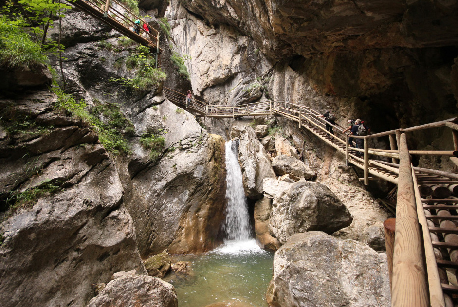 Bärenschützklamm This media shows the natural monument in Styria with the ID 395.